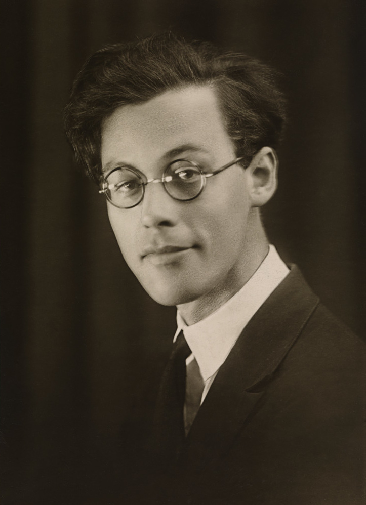 Tittel / Title: Portrett av Rolf Jacobsen Fotograf / Photographer: Hugo Wickman (1884-1964) Sted / Place: Oslo Eier / Owner Institution: Nasjonalbiblioteket / National Library of Norway Lenke / Link: Bildesignatur / Image Number: blds_03362